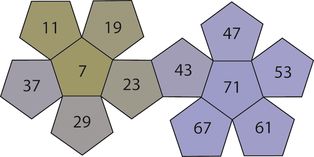 nontransitive prime-numbers-dodecahedron PD 1